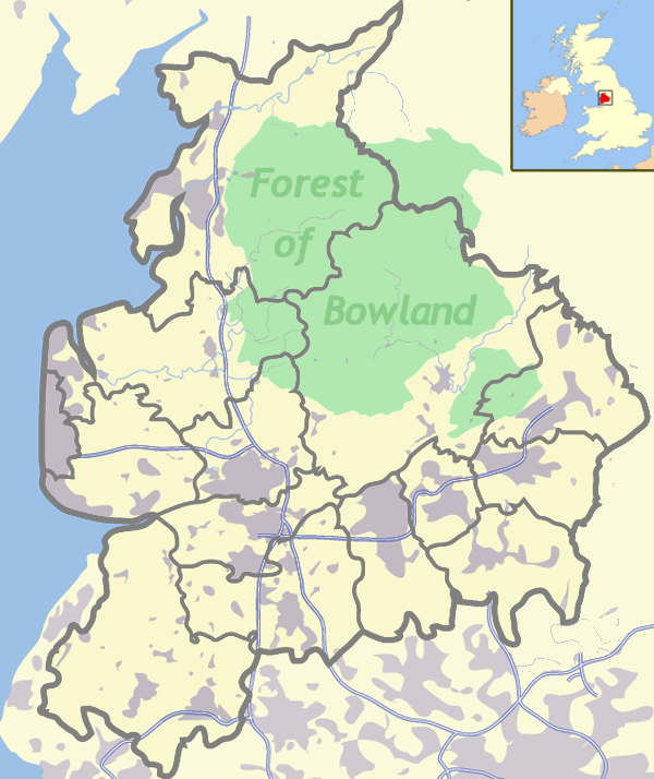 Map showing the Forest of Bowland and the district boundaries of Lancashire in England.